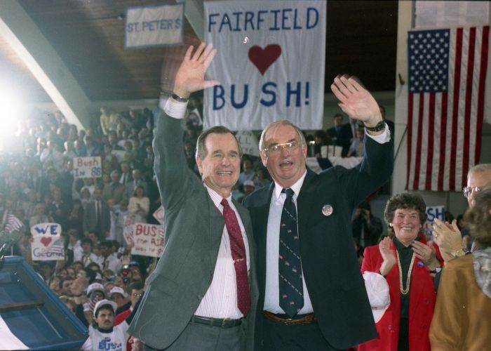 Vice President George H. W. Bush campaigns in Fairfield, CT with Senator Lowell Weicker. 04 November 1988